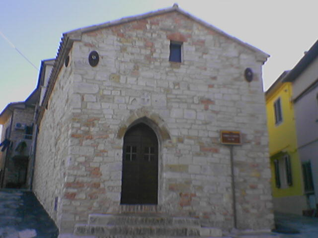 Santa Lucia al Poggio